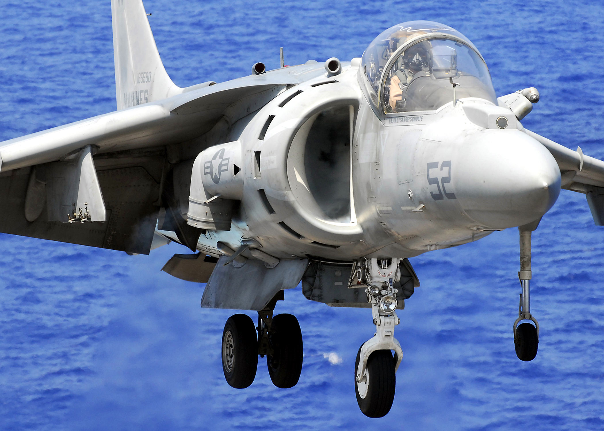 U.S. Marine Corps Maj. M. J. Shulte lands an AV-8B Harrier aircraft on the flight deck of the amphibious assault ship USS Peleliu (LHA 5), while under way in the Pacific Ocean.